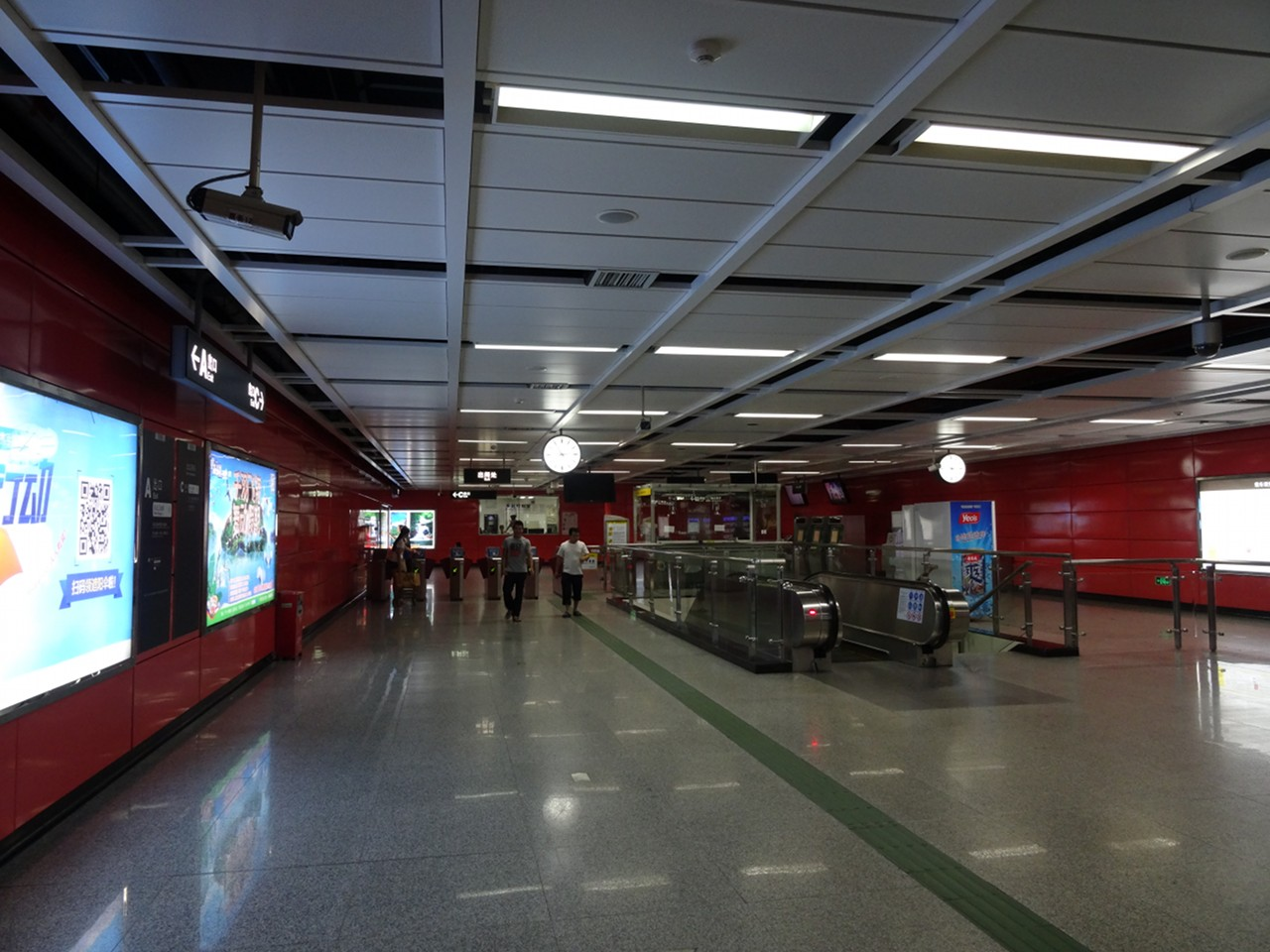 會江站嘅站廳